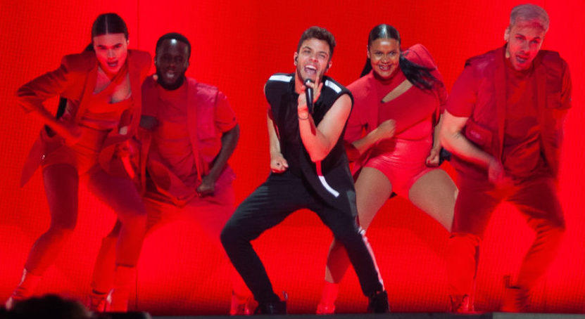 At the 2019 Eurovision Song Contest Grand Final Dress Rehearsal